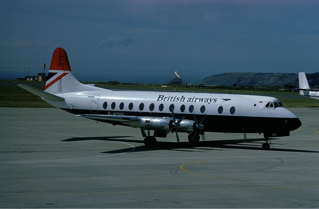 British Airways Vickers Viscount